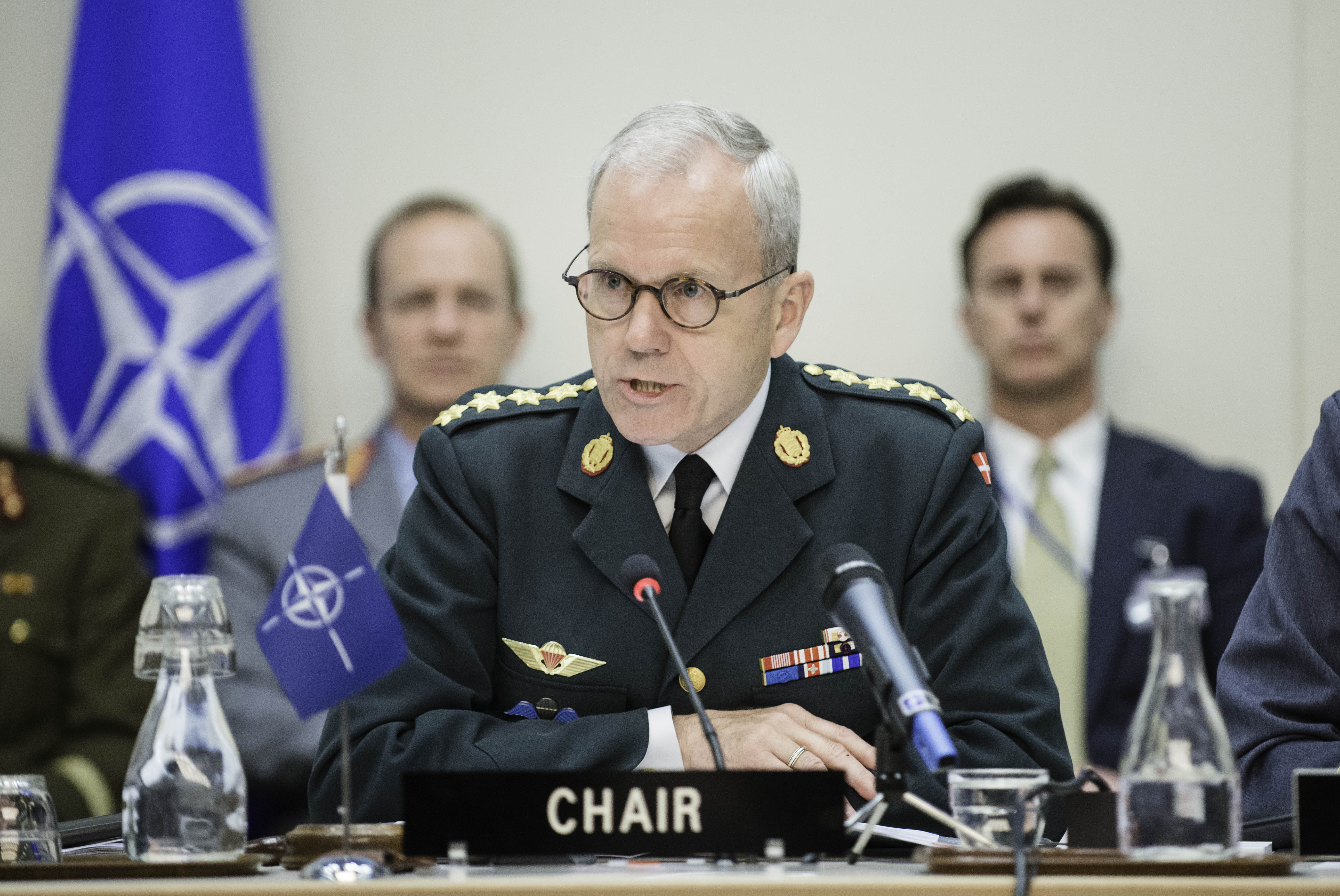 NATO's Chairman of the Military Committee General Knud Bartels makes opening statements. 18th Chairman of the Joint Chiefs of Staff Gen. Martin E. Dempsey meets with NATO Military Committee counterparts in Brussels, Belgium, May 21, 2014. The alliance of 28-member-countries' chiefs discussed current military issues to include the way ahead in Afghanistan, Ukraine, and future threats. DoD photo by SSG Sean K. Harp